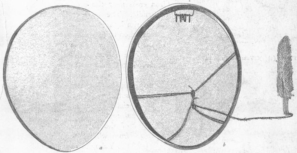 Koryak shaman's drum with a drumstick.